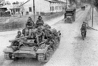 Red Army Valentine Mk. IX tank on a road in the Ukrainian SSR - Battle of the Dnieper, Winter 1943.